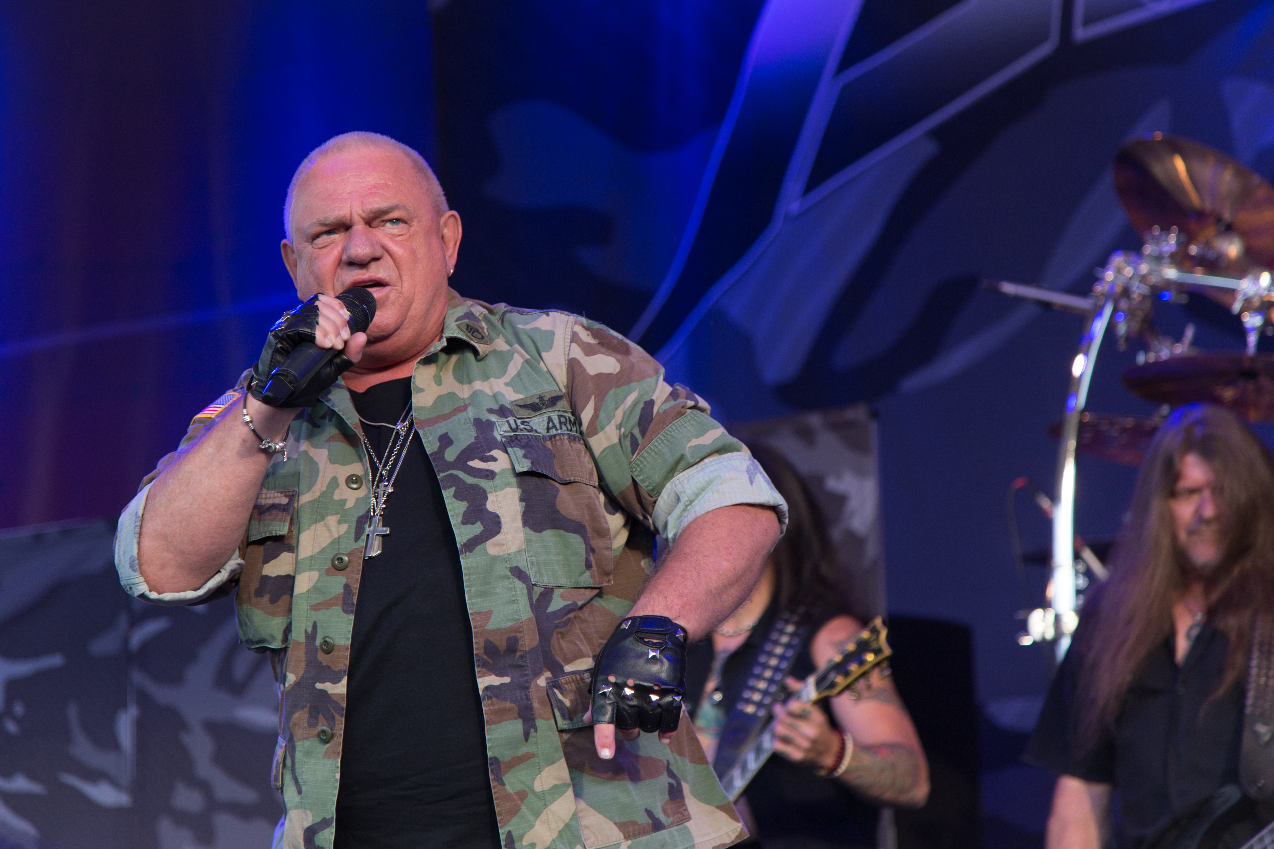 Dirkschneider performing live at Rock Hard Festival 2017, Gelsenkirchen, Germany